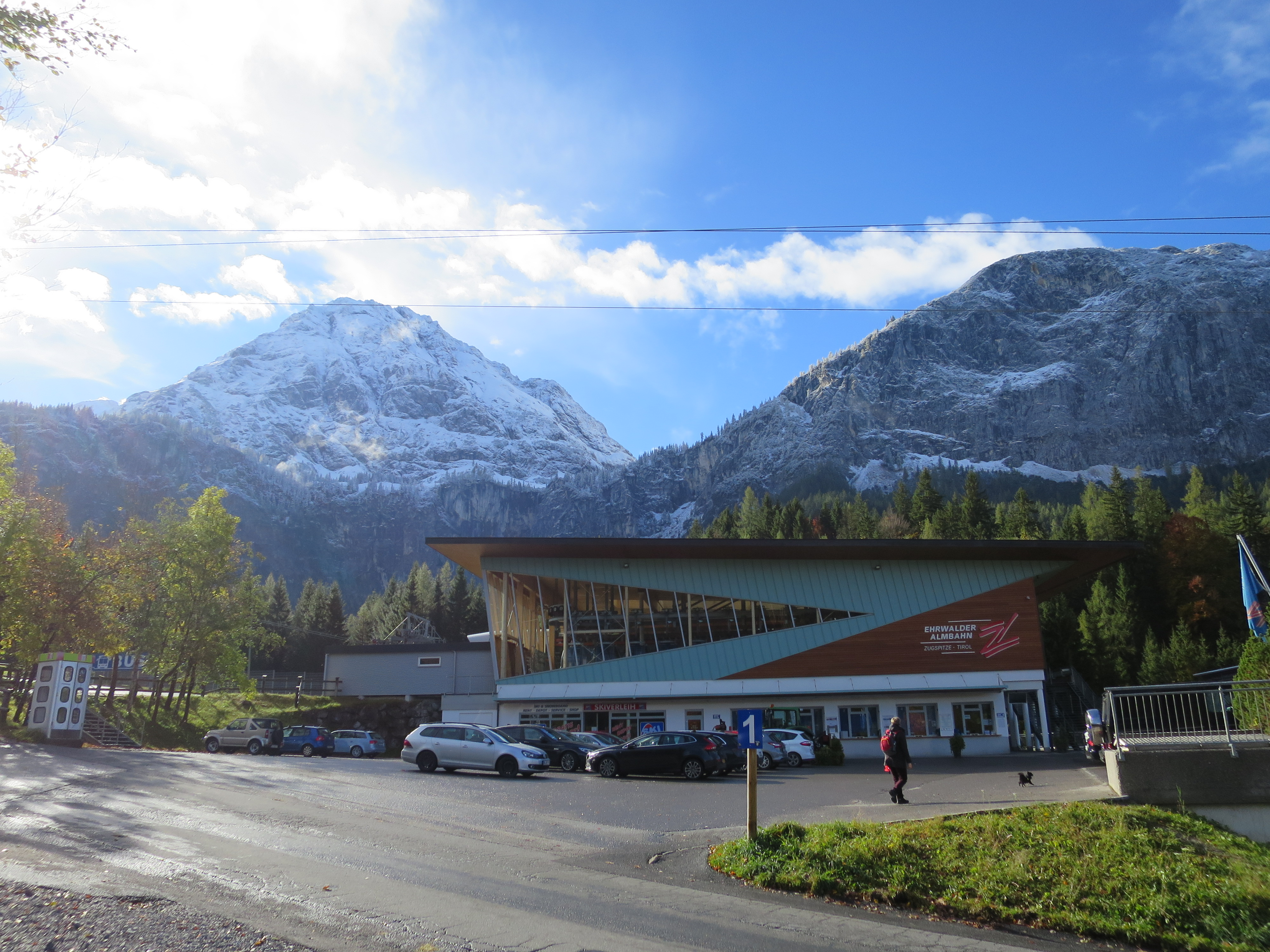 Ehrwalder Almbahn